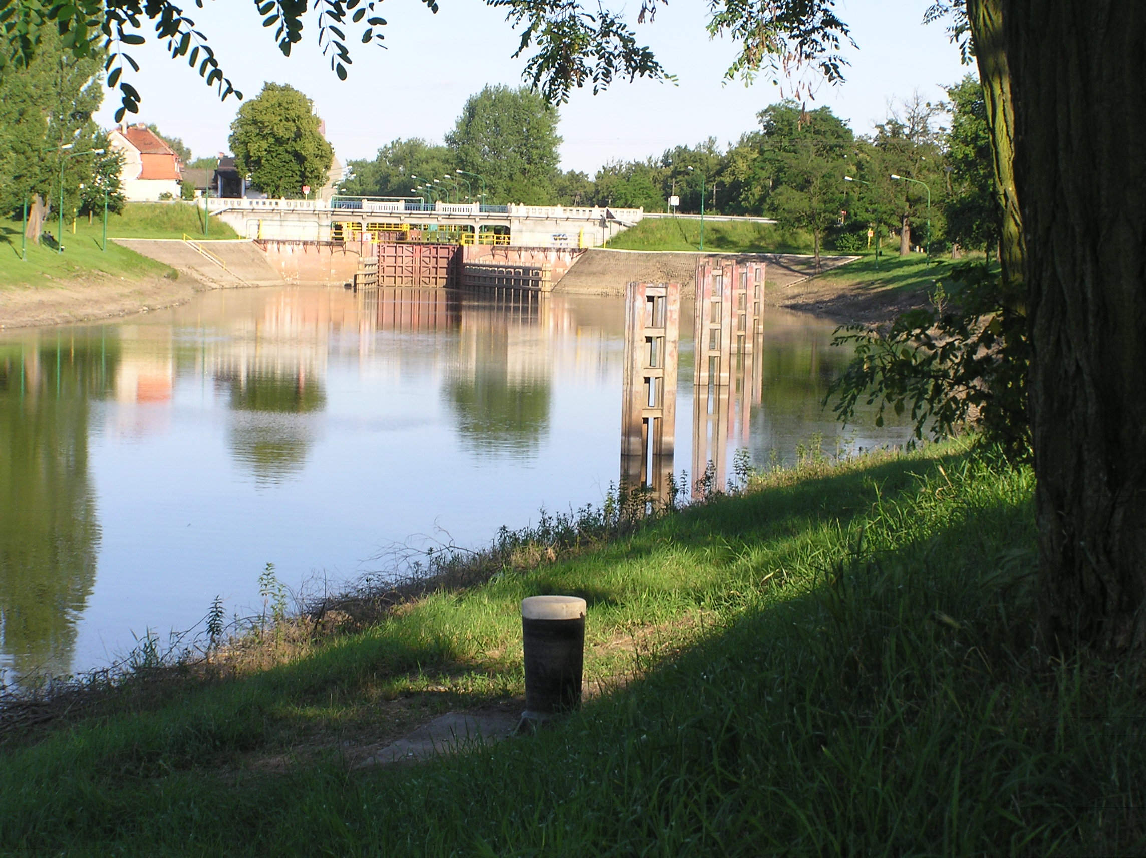 Oława II Lock